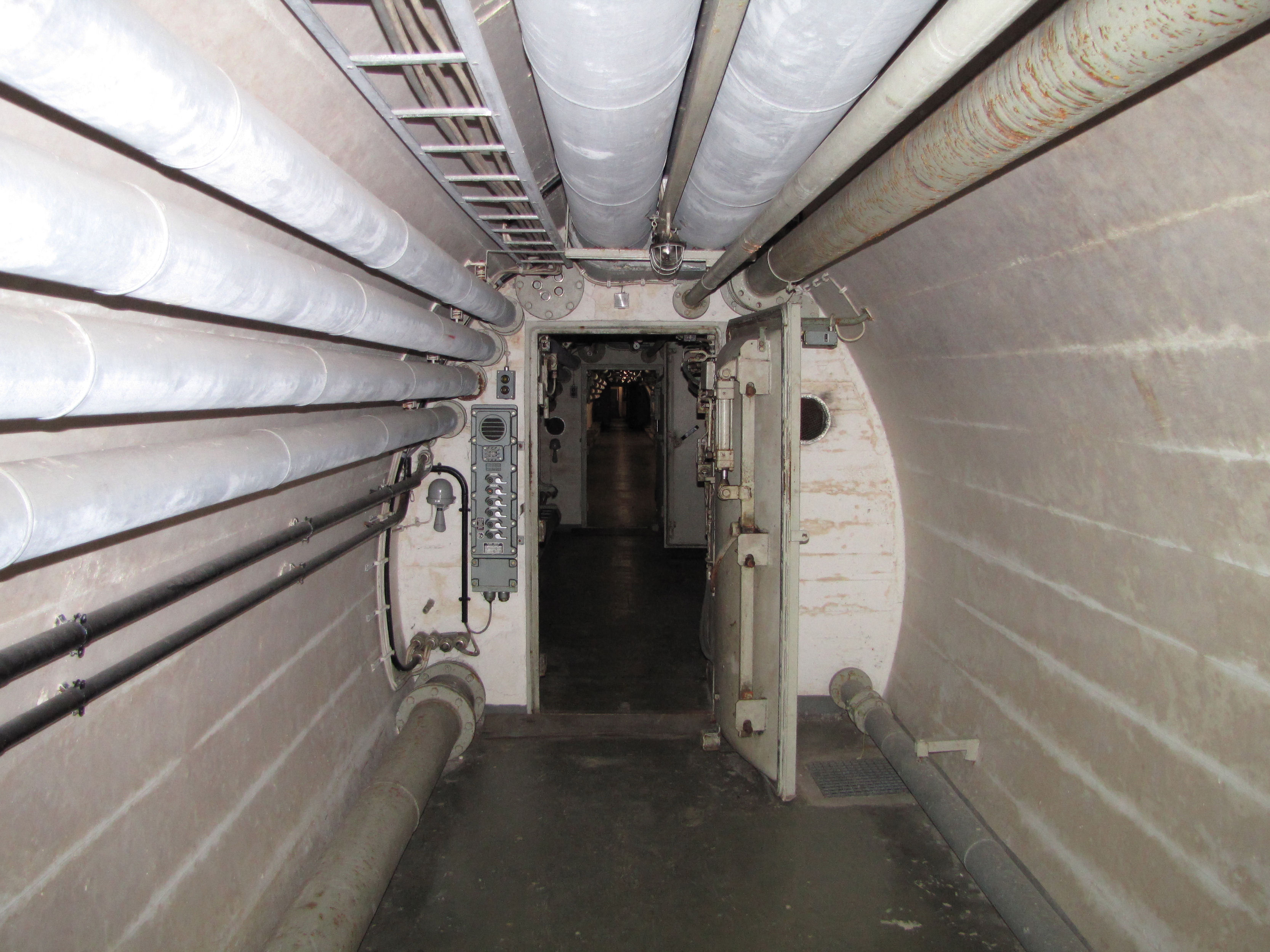 Bunker of the Deutsche Bundesbank in Cochem: connecting gallery to the bunker